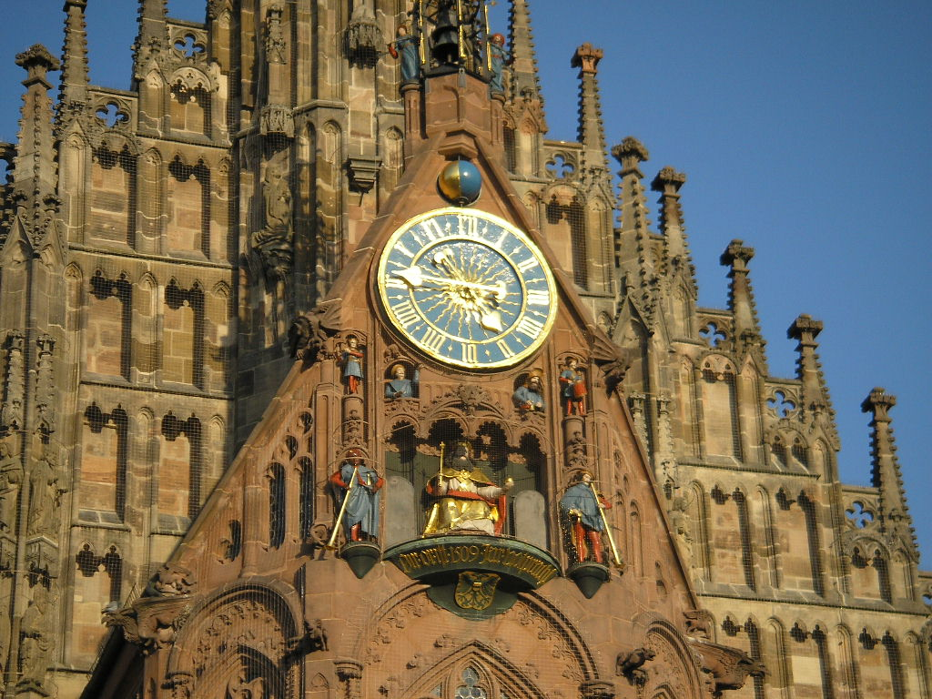 View of the Frauenkirche in Nuremberg.